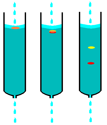 Chromatography column with sample in three different stages